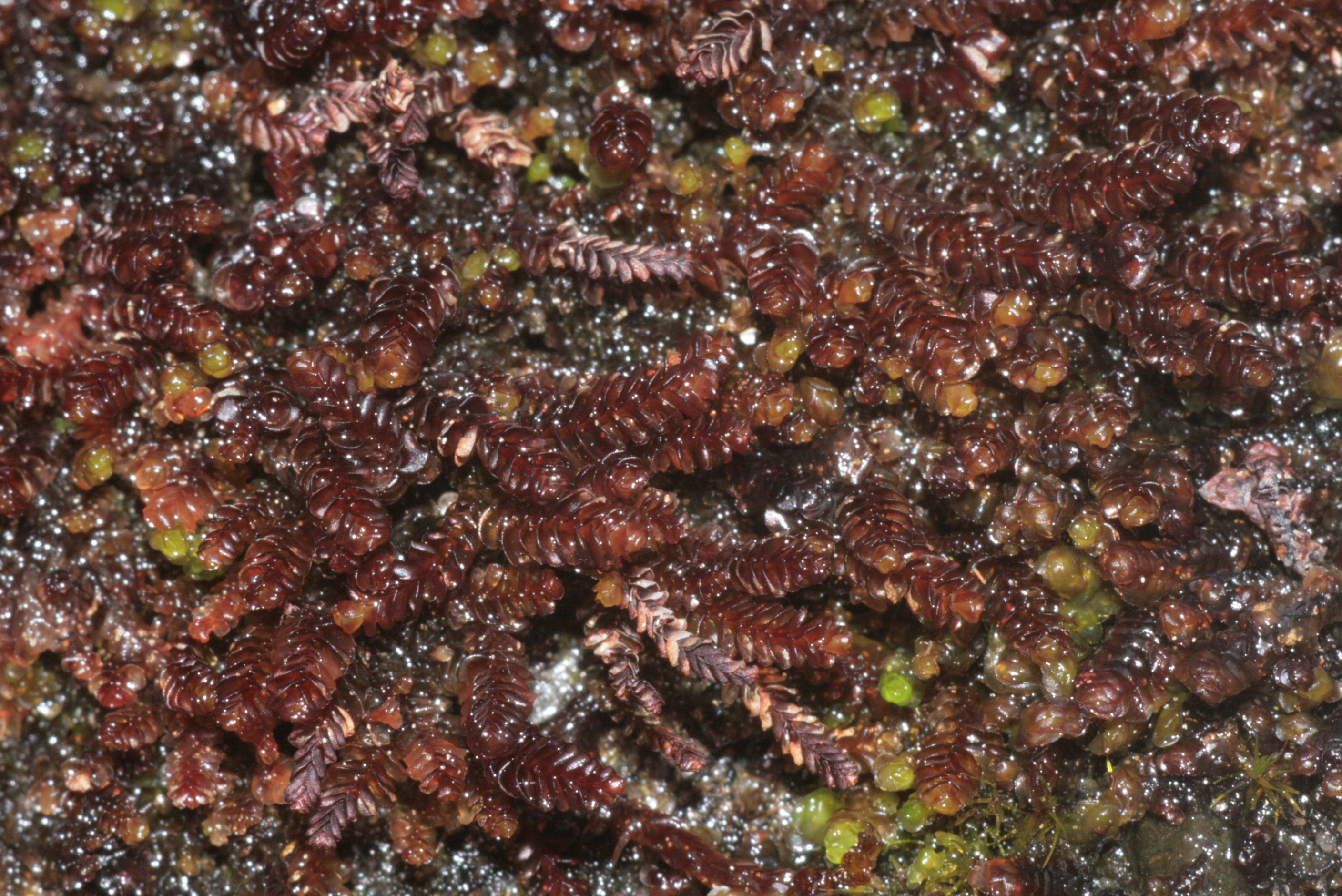 Marsupella emarginata